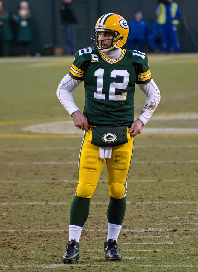 New York Giants vs. Green Bay Packers in the NFC Divisional Playoff Game at Lambeau Field on January 15, 2012. Photo by Mike Morbeck.